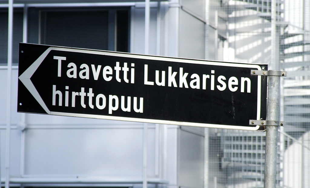 The sign showing the direction to the hanging tree of Taavetti Lukkarinen in Oulu, Finland